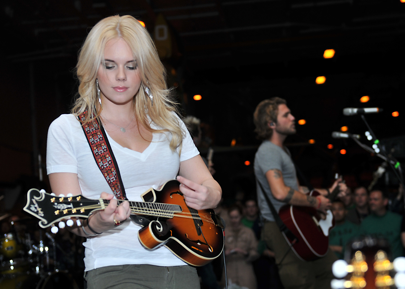 ARABIAN GULF (Nov. 5, 2010) Cheyenne Kimball, a performer with the country music band, Gloriana, performs in the hangar bay of the aircraft carrier USS Abraham Lincoln (CVN 72). The concert was sponsored by the Abraham Lincoln morale, welfare and recreation program. The Abraham Lincoln Carrier Strike Group is deployed to the U.S. 5th Fleet area of responsibility supporting maritime security operations and theater security cooperation efforts. (U.S. Navy photo by Mass Communication Specialist Seaman Wade T. Oberlin/Released)